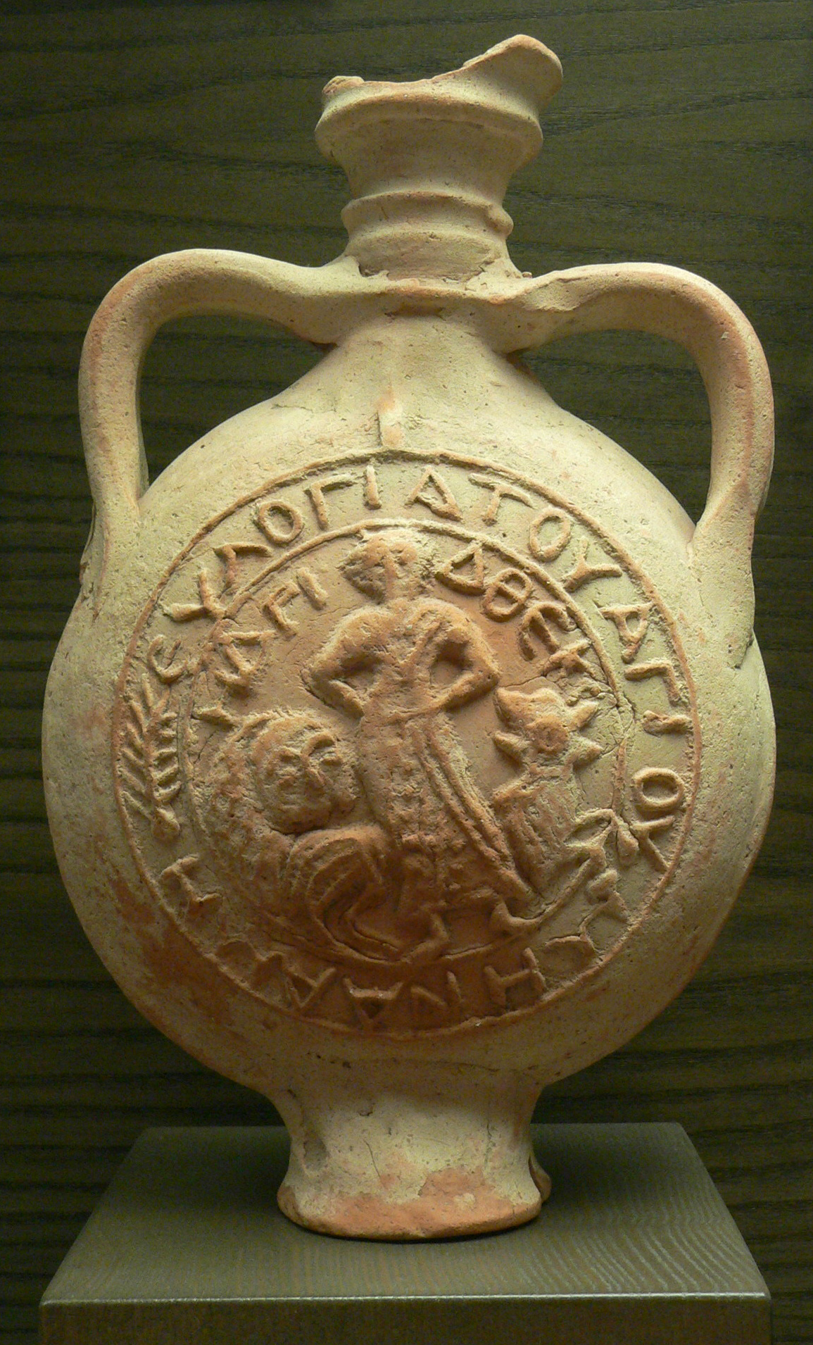 Eulogy ampulla represening St. Menas and St. Thecla. Terracotta, 6th century, unknown origin.